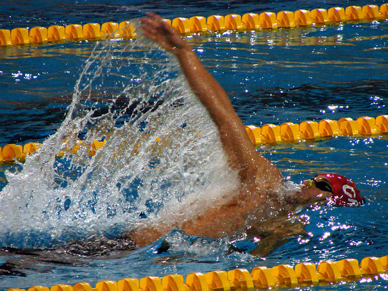 Gordan Kožulj from Croatia, swimming backstroke at Eindhoven.